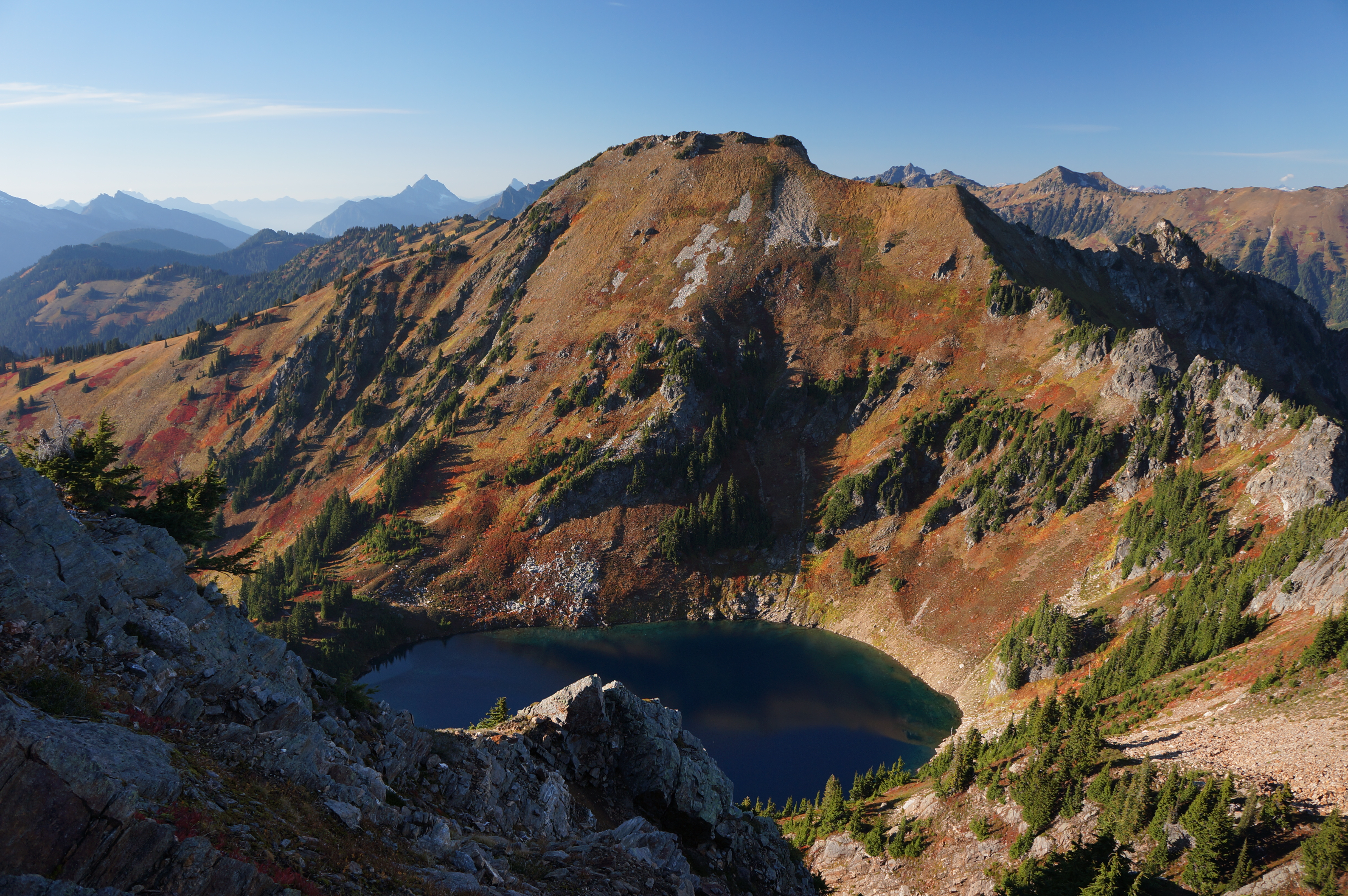 Johnson Mountain and Blue Lake seen from Blue Mountain in the Glacier Peak Wilderness